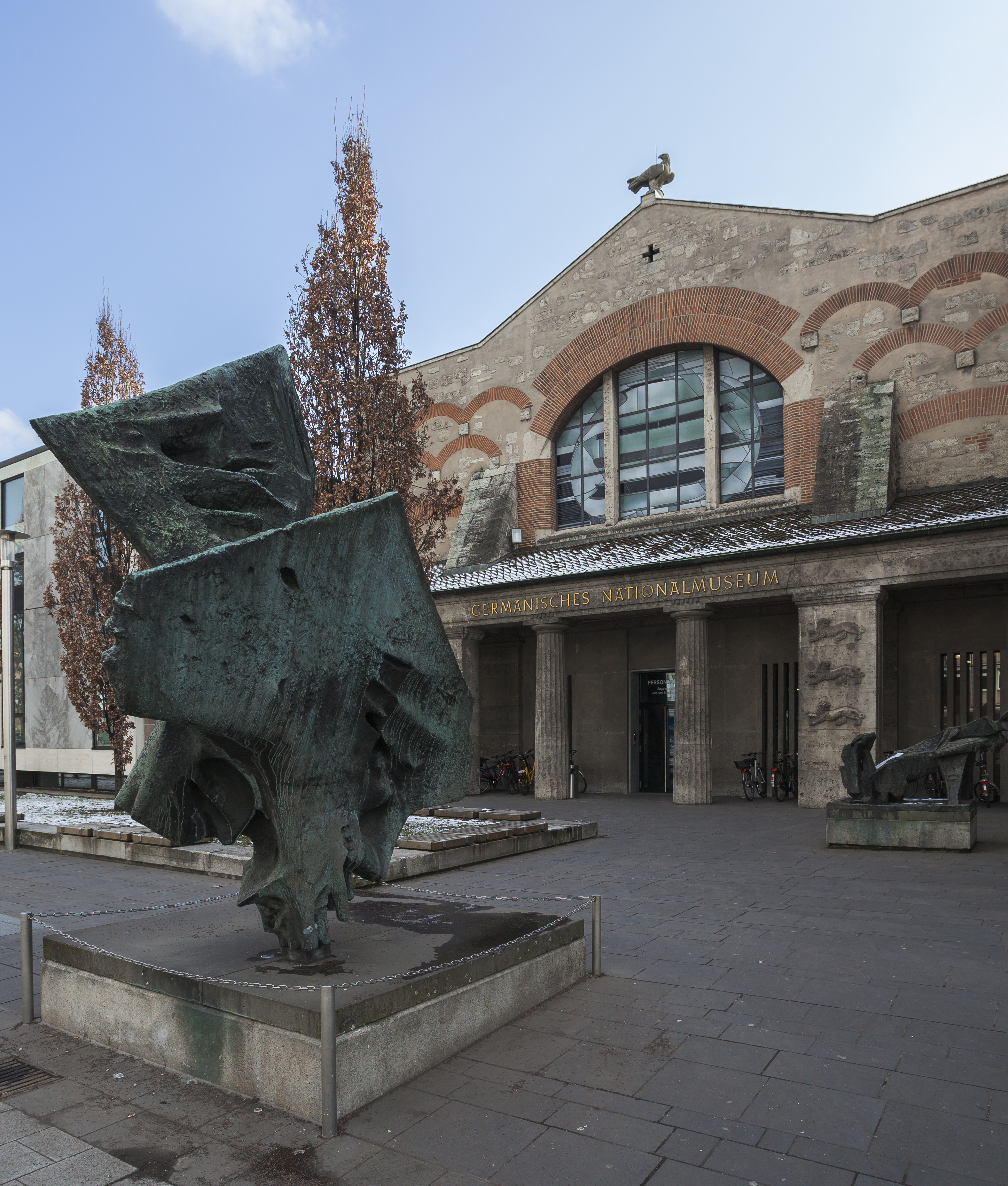 Germanic National Museum, Nuremberg, Germany